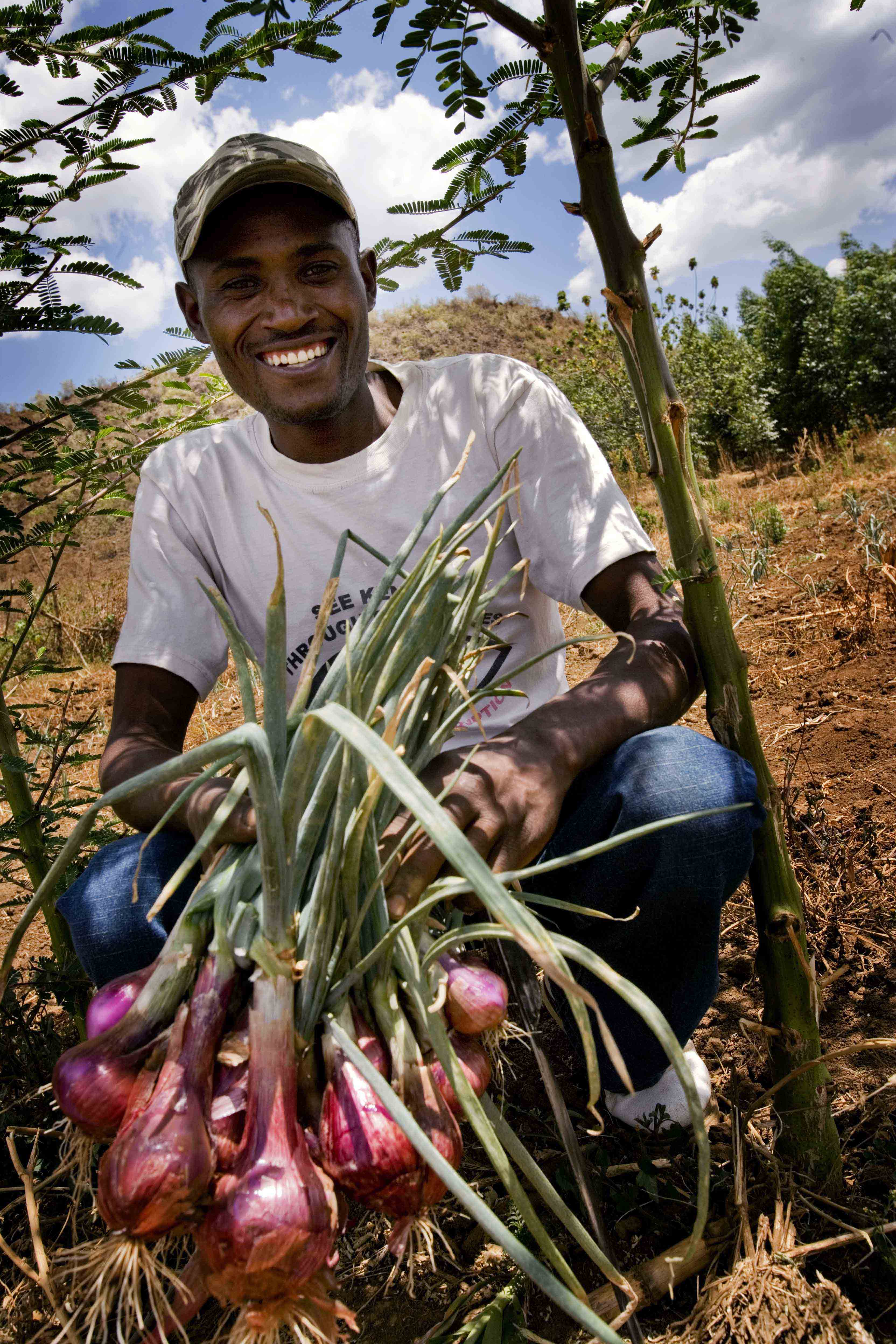 John Kamau holds up some of the onions he has grown to sell on his farm near Gilgil, Kenya, on the 16th March, 2009. John is part of the Self Help Development Initiative that is supported by AusAid that teaches farmers how to make their land more productive through protecting their environment. Kenya 2009. Photo: Kate Holt / AusAID